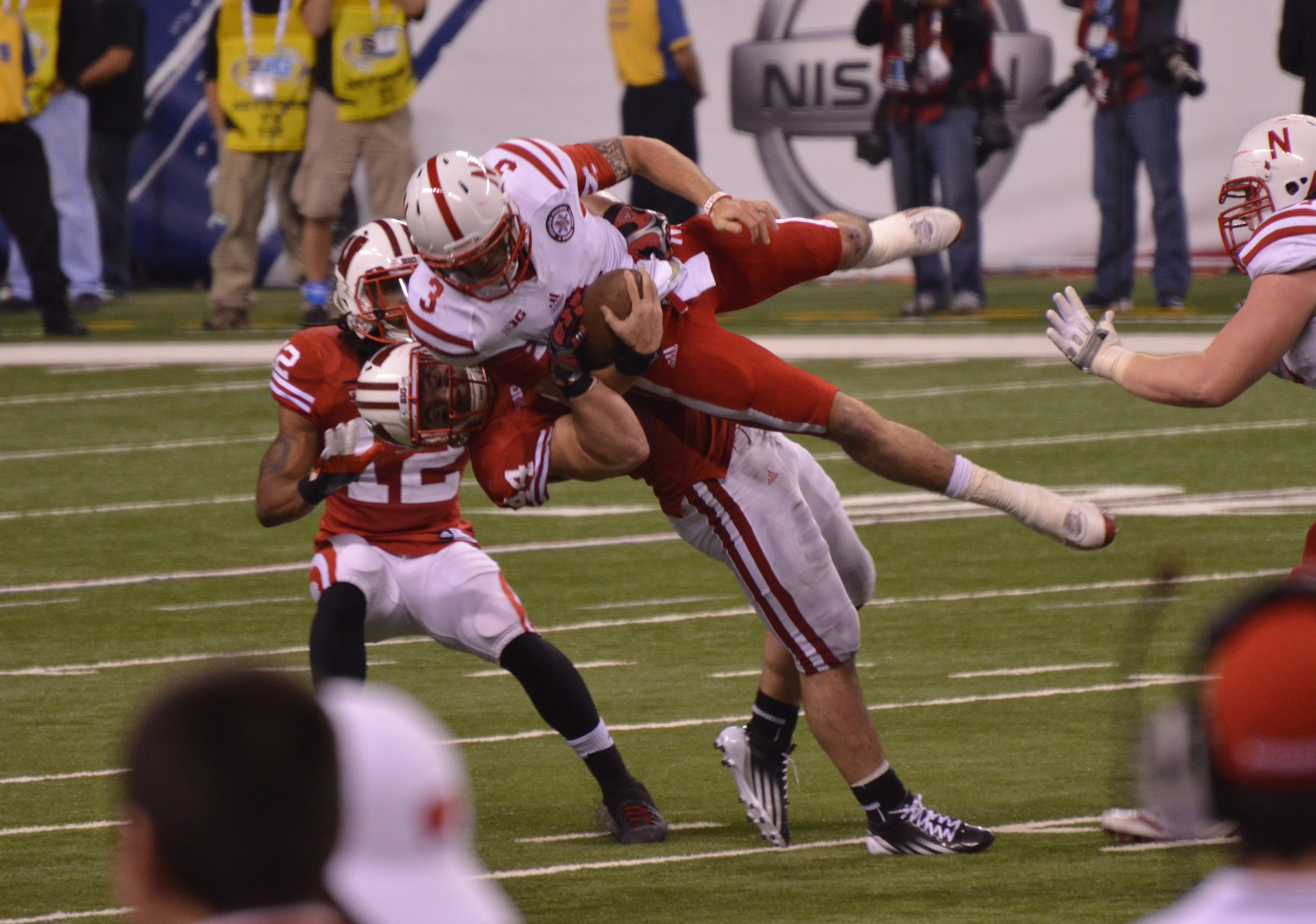 Wisconsin Badgers linebacker Chris Borland tackles Nebraska Cornhuskers quarterback W:Taylor Martinez in the w:2012 Big Ten Football Championship Game where Wisconsin went on to defeat Nebraska 70-31.